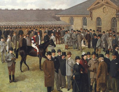 Detail of "The Birdcage at Newmarket on the 2000 Guineas Day"(1885), by Lowes Cato Dickinson. A total of 136 individuals are identified in the accompanying Plate Key (see source). The identified figures are listed in the numbered key which runs from No.1 to No. 136. For instance, the horse and rider that came first in the 2,000 Guineas Stakes is depicted in the centre of the original painting and on the Key Plate the line drawing is numbered 75. The Key Plate identifies the winning jockey (No.75) as Fred Archer mounted on the winning horse "Paradox". This detail shows the central section of the painting, with Fred Archer, wearing the scarlet red body silks with black & white hooped sleeves, riding his mount "Paradox" towards the trainer John Porter and the horse's owner Mr. Broderick Cloete.